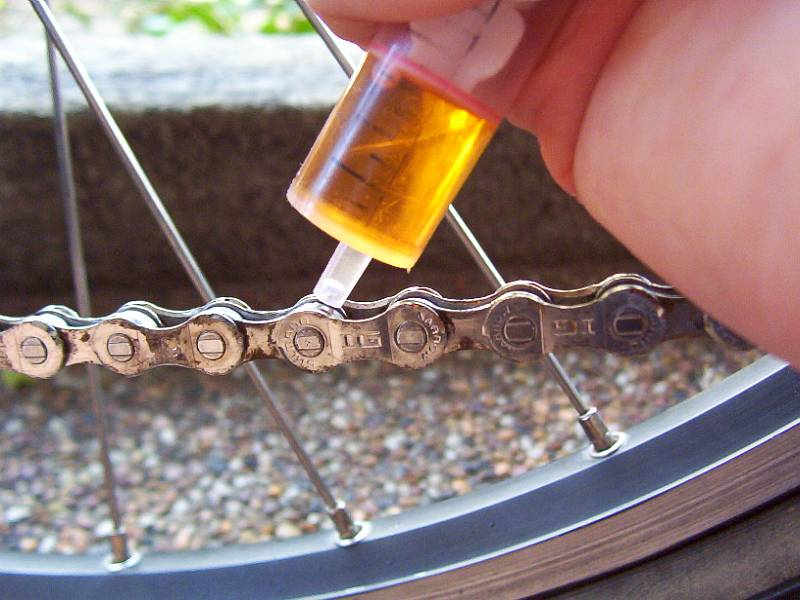 Bicycle chain oiling